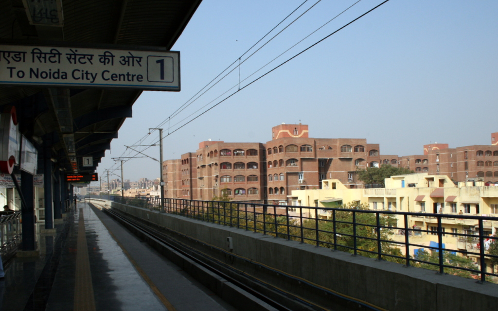 North view of Mayur Vihar Phase I, Pocket IV and Hindustan Apartments from metro station. Location: Delhi, India